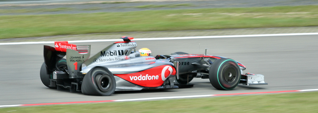 Lewis Hamilton suffers a puncture at the 2009 German Grand Prix.